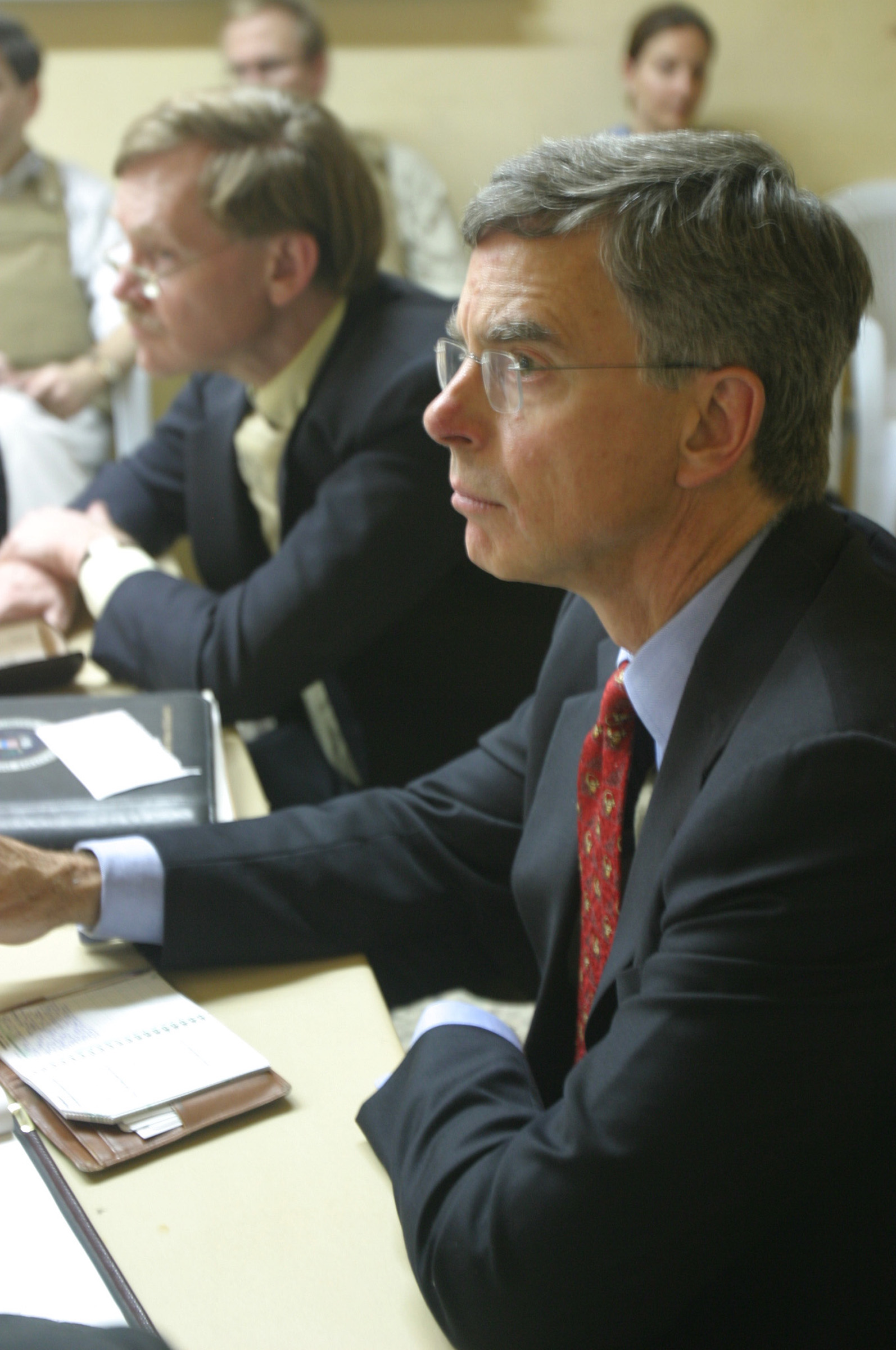 Ambassador William B. Taylor met with the interim Fallujah city council on April 13 to discuss important topics of the future of Fallujah. Along with Taylor, two other ambassadors and Deputy Department of State Robert B. Zoellick listened to topics such as security and the lifestyles of the poeple in the city.